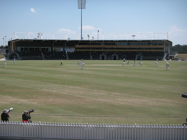 Sheffield Shield cricket between NSW and Tasmania at Blacktown International Sports Park Oval 31 October 2013